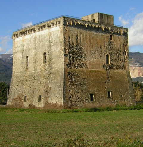 See with the same name, author: Francesco Cataudo